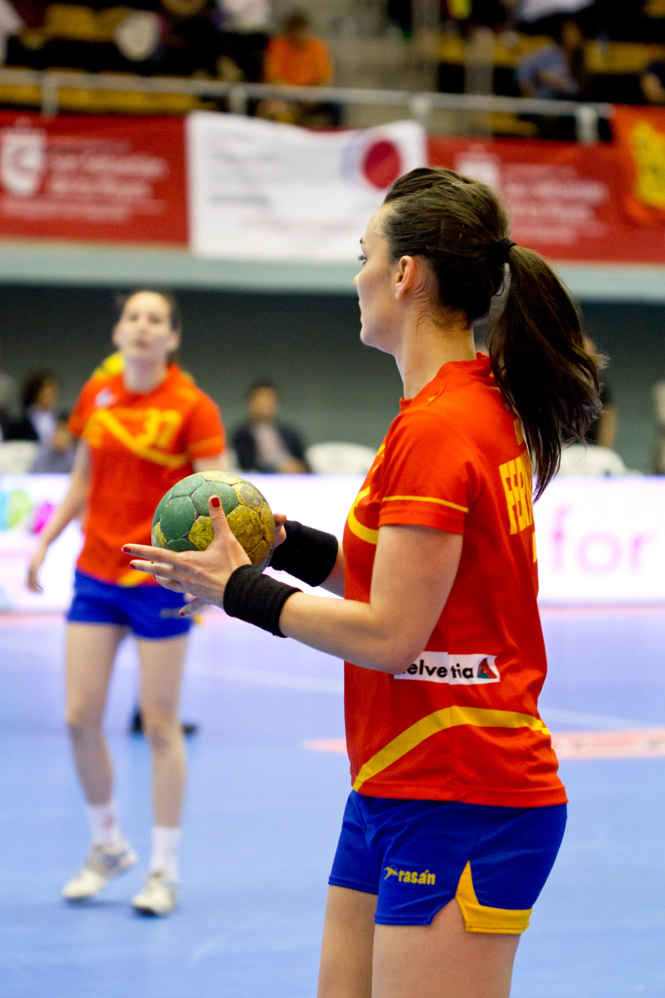 Spain Handball All Star Game 2013, held in San Sebastián de los Reyes, Madrid, Spain.